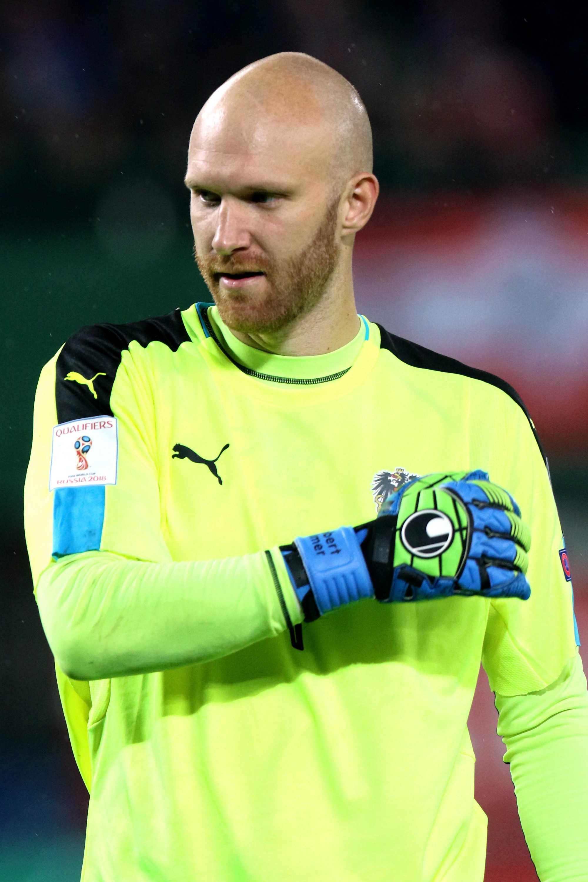 2018 FIFA World Cup qualification – UEFA Group D) – Austria (red shirts) vs. Wales (white shirts) 2-2 (1-2) – 2016-10-06 in Vienna, Ernst-Happel-Stadion – The photo shows goalkeeper Robert Almer (Austria).